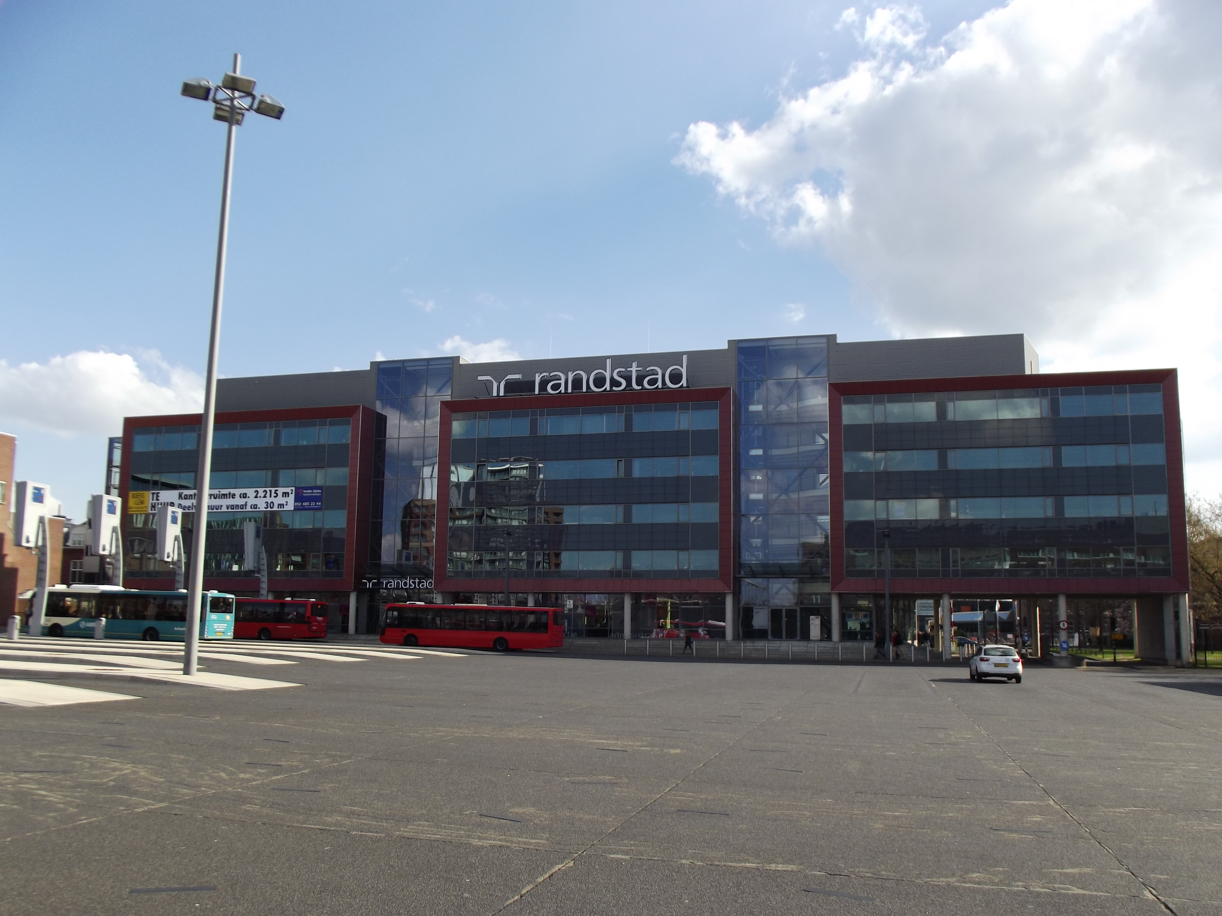 Randstad building in Enschede, netherlands